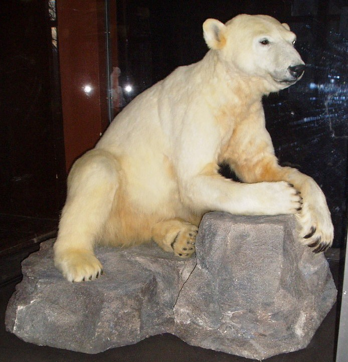 Stuffed Knut, the famous Berlin polar bear, on display in the lobby of the Naturkundemuseum in Berlin.